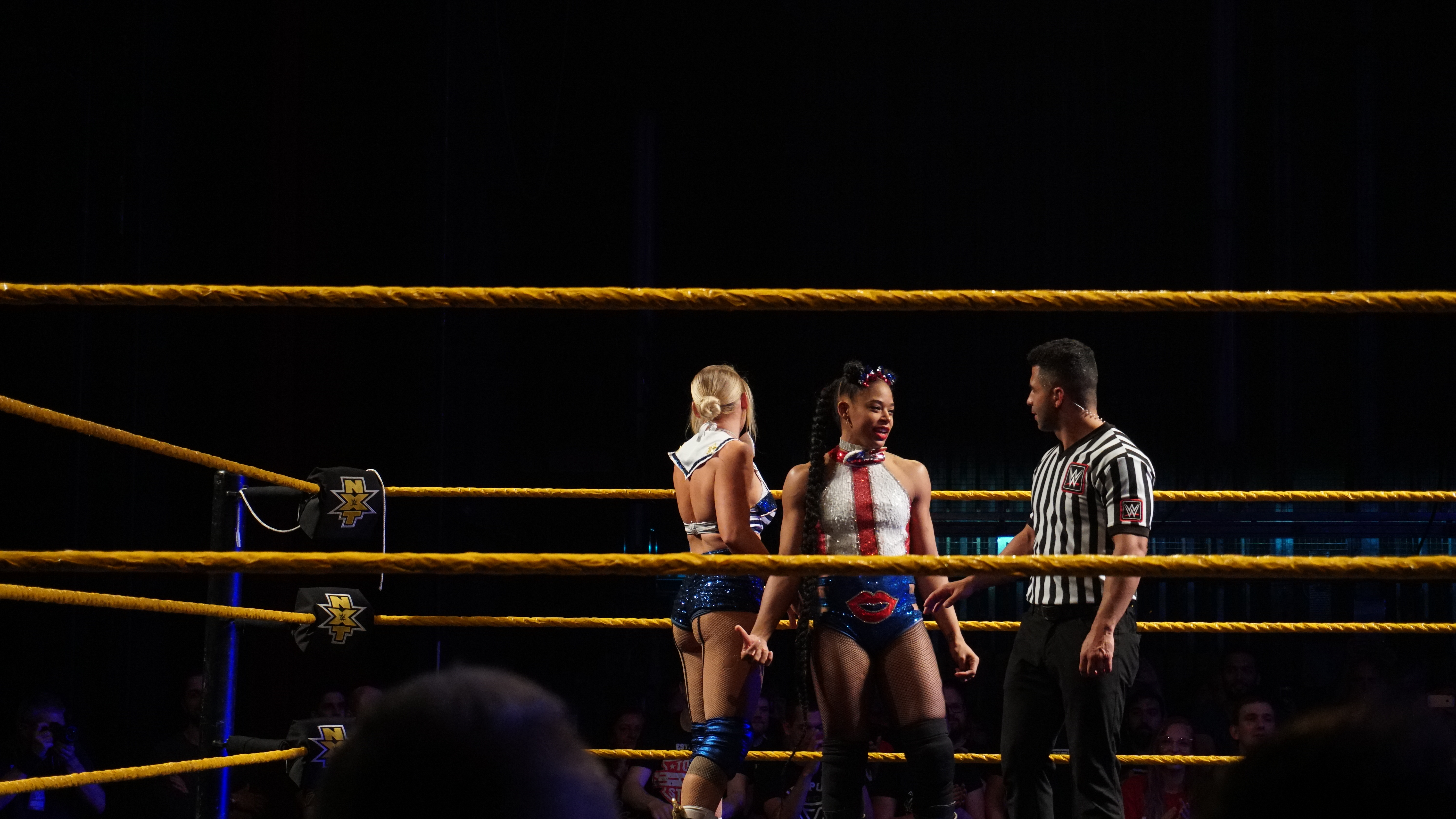 WWE Live 2018 - Antwerpen (NxT) - Candice LeRae&Dakota Kai Vs Bianca BelAir&Lacey EvansCandice LeRae&Dakota Kai def. (Pin) Bianca BelAir&Lacey Evans( Bonne nouvelle pour les inconditionnels du catch en Belgique : le mardi 12 juin 2018, les superstars de NXT donneront le meilleur d'eux-memes au Stadsschouwburg Antwerpen, lors d'un show exclusif au Benelux.WWE NXT est une emission televisee creee en 2010, durant laquelle de jeunes catcheurs sont formes par des veterans comme Chris Jericho et C.M. Punk. Tous partagent le meme reve : devenir la nouvelle star du catch. Le programme WWE NXT a tres vite rencontre un enorme succes. Aujourd'hui, WWE NXT est connu comme une veritable machine a talents. Pensez par exemple a Seth Rollins, qui etait encore chez nous pas plus tard que l'annee derniere pour WWE Live.Cette annee encore, vous aurez la chance de voir a l'oeuvre de nombreux nouveaux talents du catch ! A l'affiche, on trouve notamment Aleister Black, Adam Cole, Undisputed Era, Velveteen Dream, Ricochet, Nikki Cross, Shayna Baszler et Kairi Sane. Le line-up reste sujet a des changements de derniere minute.Attendez-vous a un show sensationnel et plein de tension ! )